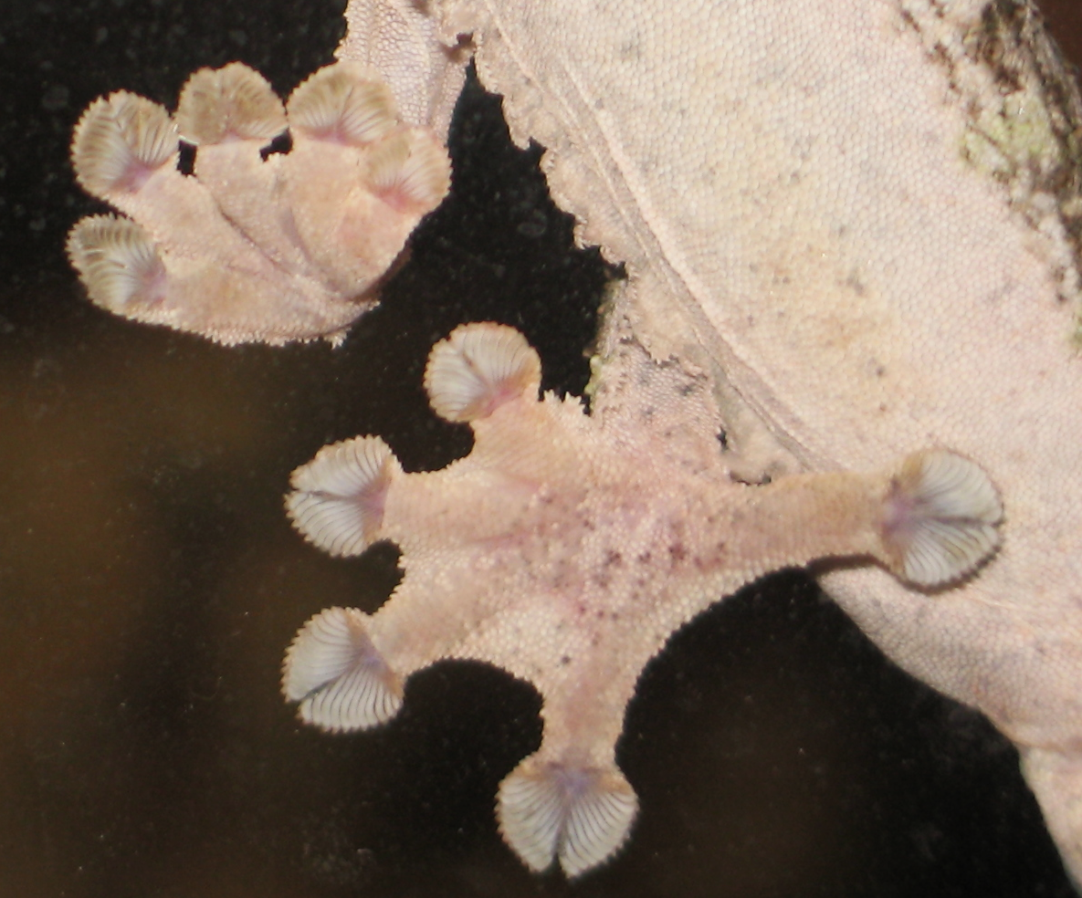 Setae of Uroplatus sameiti (gecko). Personnal picture of my own animals.